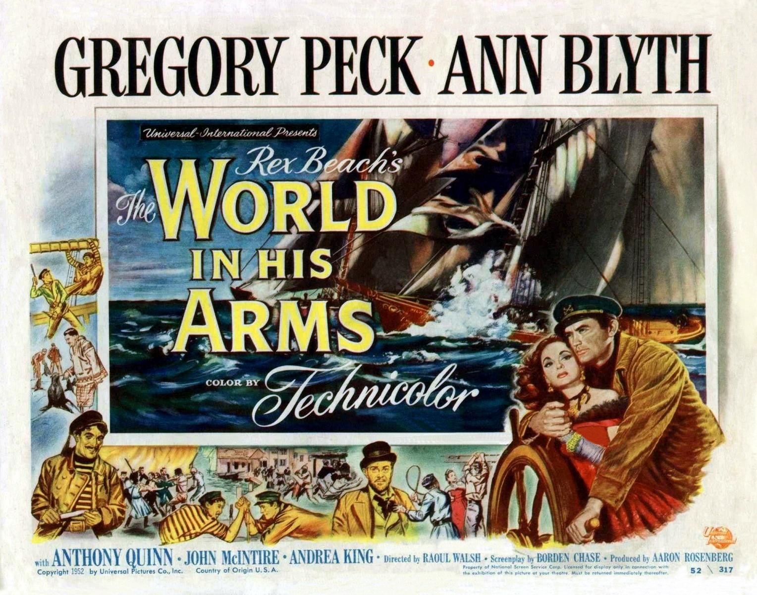 Advertising poster for the US film The World in His Arms (1952).